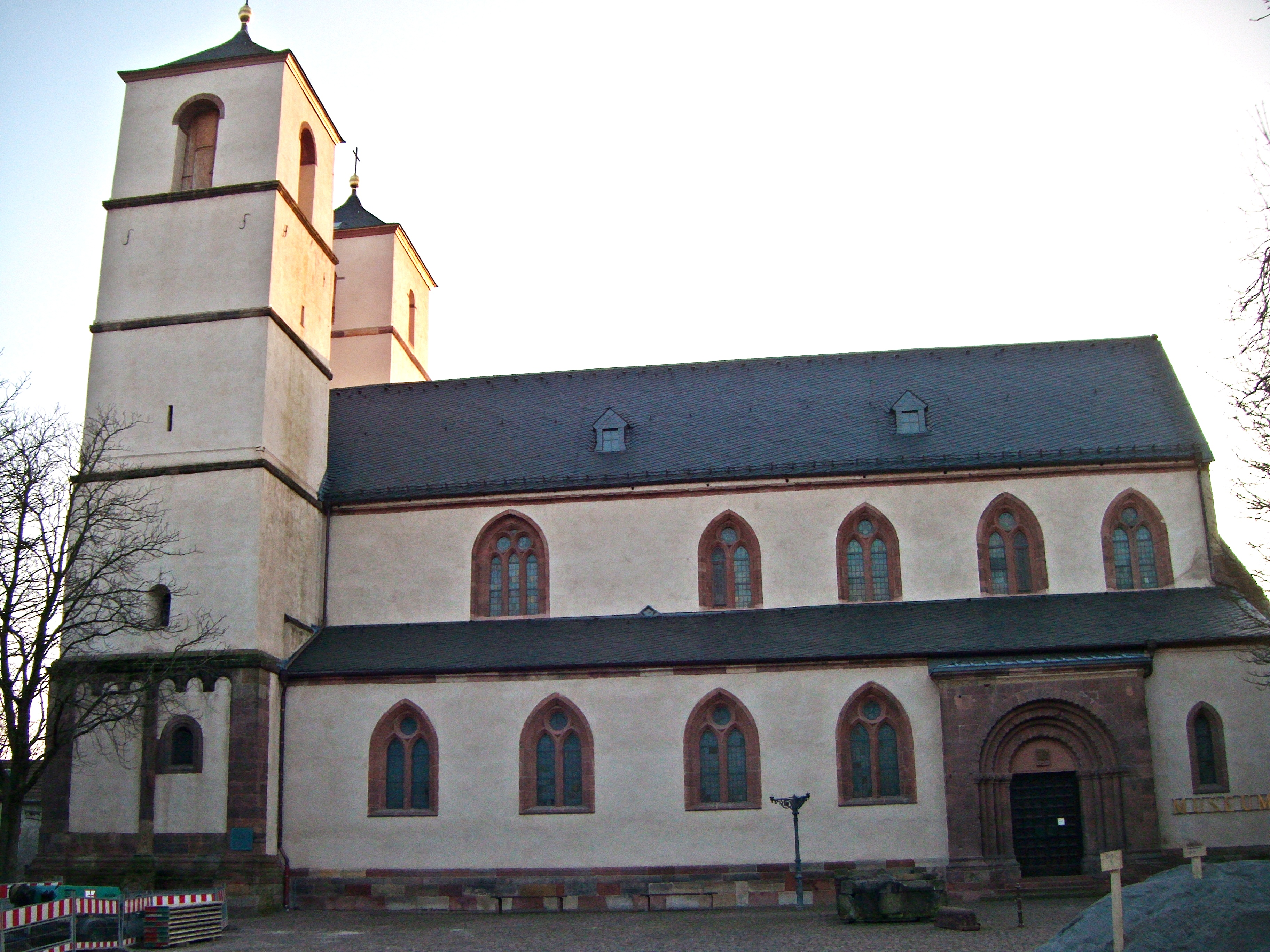 Profanierte Kirche St. Andreas, Worms (Stadtmuseum)